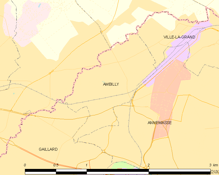 Map of French municipality Ambilly